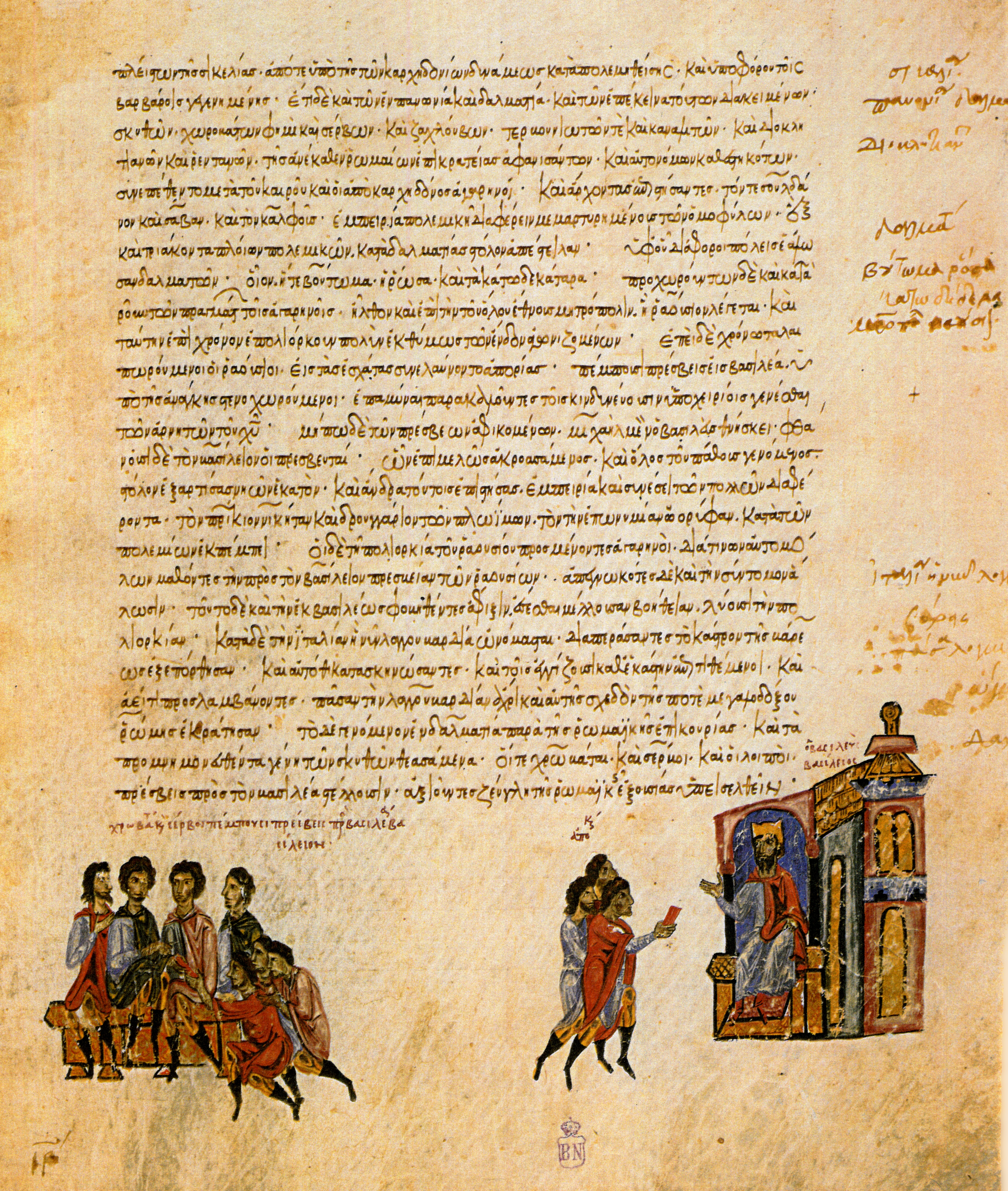 Skyllitzes Matritensis, fol. 96r. Miniature: Delegation of Croats and Serbs to the Byzantine Emperor Basil I. Text from the Chronicle of John Skylitzes: "... When the aforementioned races of Scyths, the Croats, Serbs and the rest of them saw what had happened in Dalmatia as a result of Roman intervention, they sent delegates to emperor requesting to be brought into subjection under Roman rule. This seemed to emperor to be a reasonable request; he received them with kindliness, and they all became subjects of the Roman government and were given governors of their own race and kin. ..." (Translated by John Wortley, in: John Skylitzes: A Synopsis of Byzantine History, 811-1057: Translation and Notes, p. 143) References: Ioannis Scylitzae Synopsis Historiarum. Editio Princeps. Rec. Ioannes Thurn, p. 146-147, in: Corpus Fontium Historiae Byzantinae 5 Series Berolinensis, 1973 Tsamakda V.: The illustrated chronicle of Ioannes Skylitzes in Madrid, p. 131-132 Grabar A., Manoussacas M.: L'illustration du manuscript de Skylitzes de Madrid, p. 60